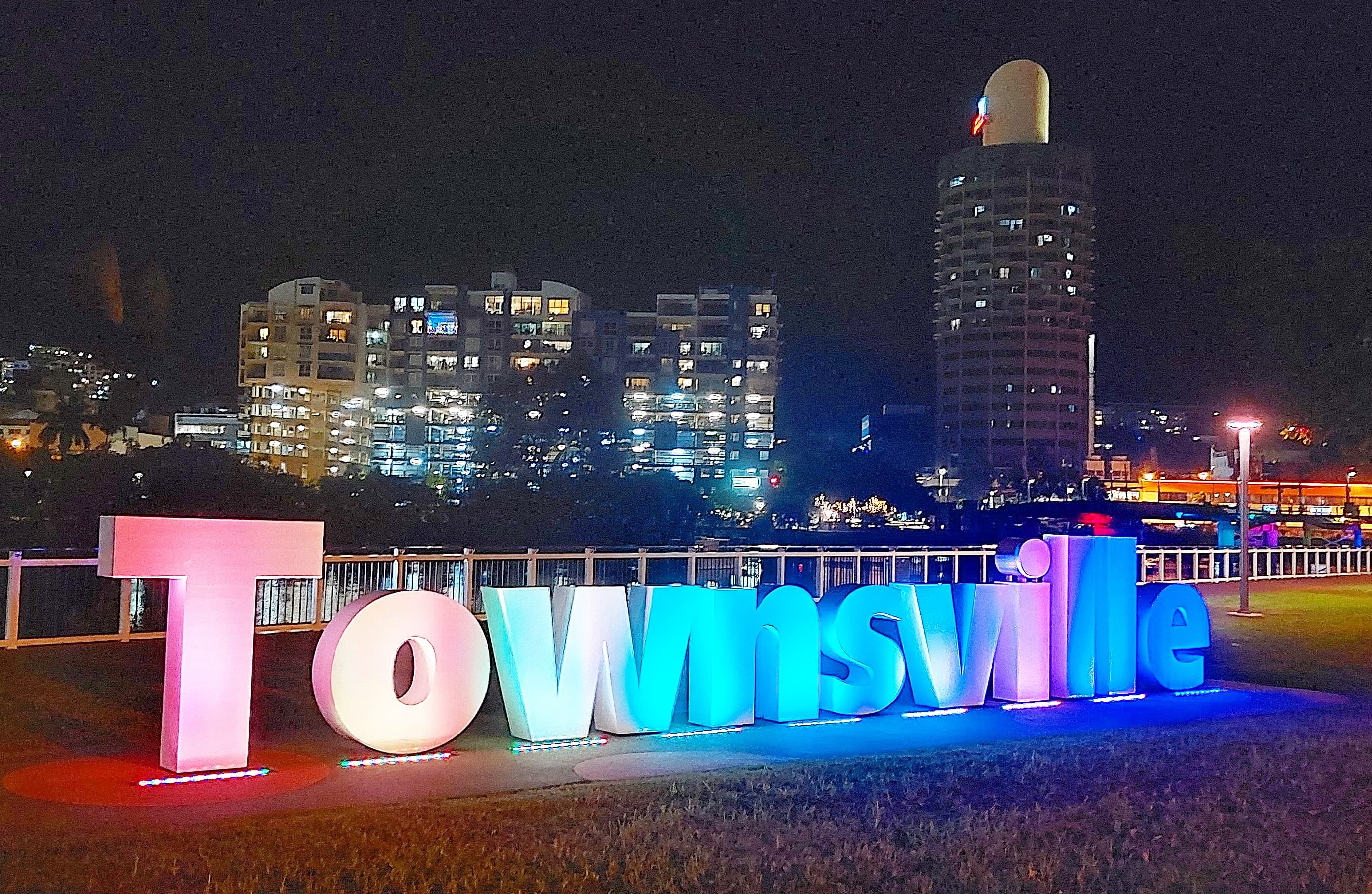 The Townsville tourist sign at night in June 2020